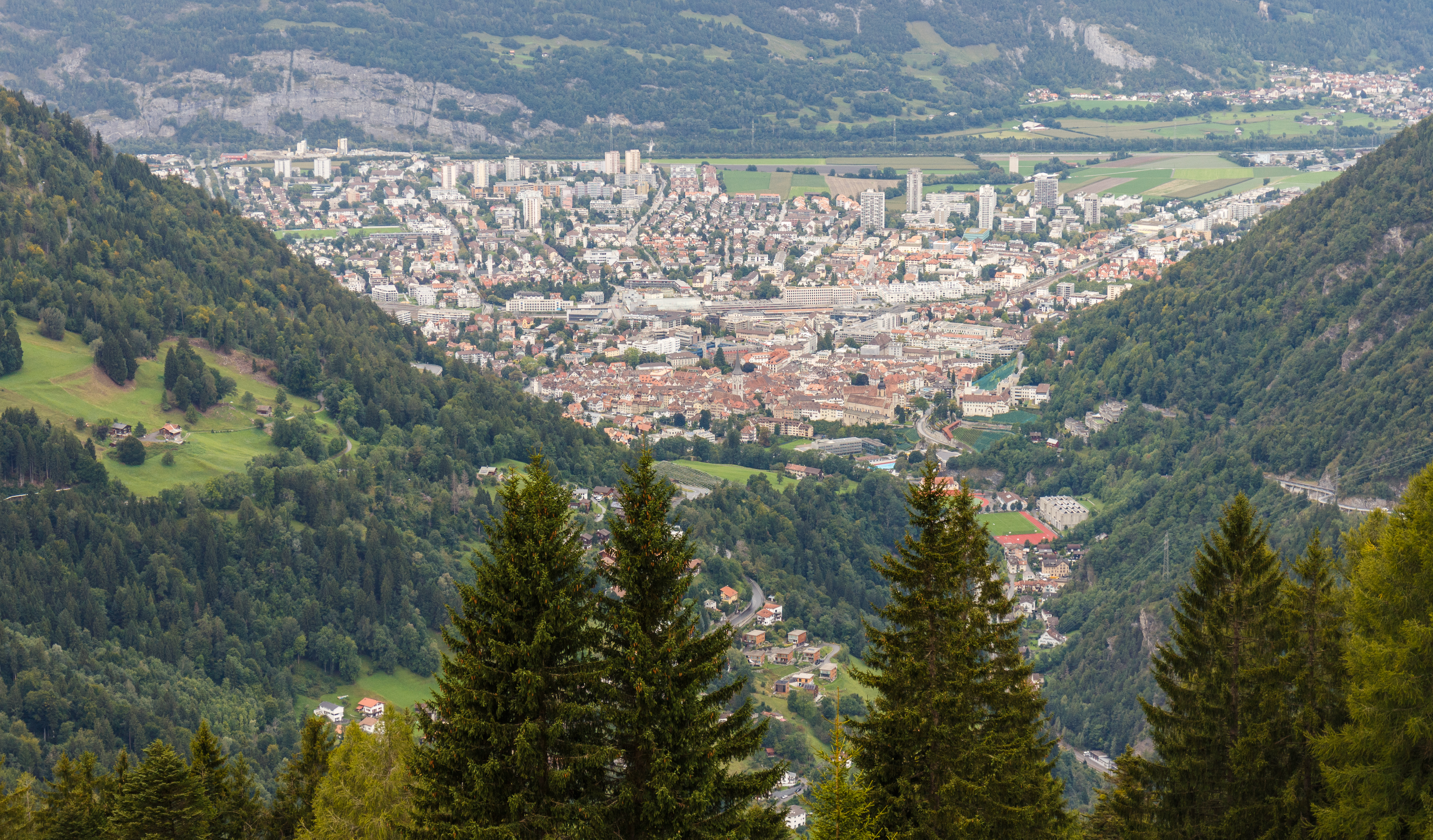 Mountain trip from Churwalden Mittelberg (1500 meter) via Ranculier and Praden towards Tschiertschen. View of Chur.